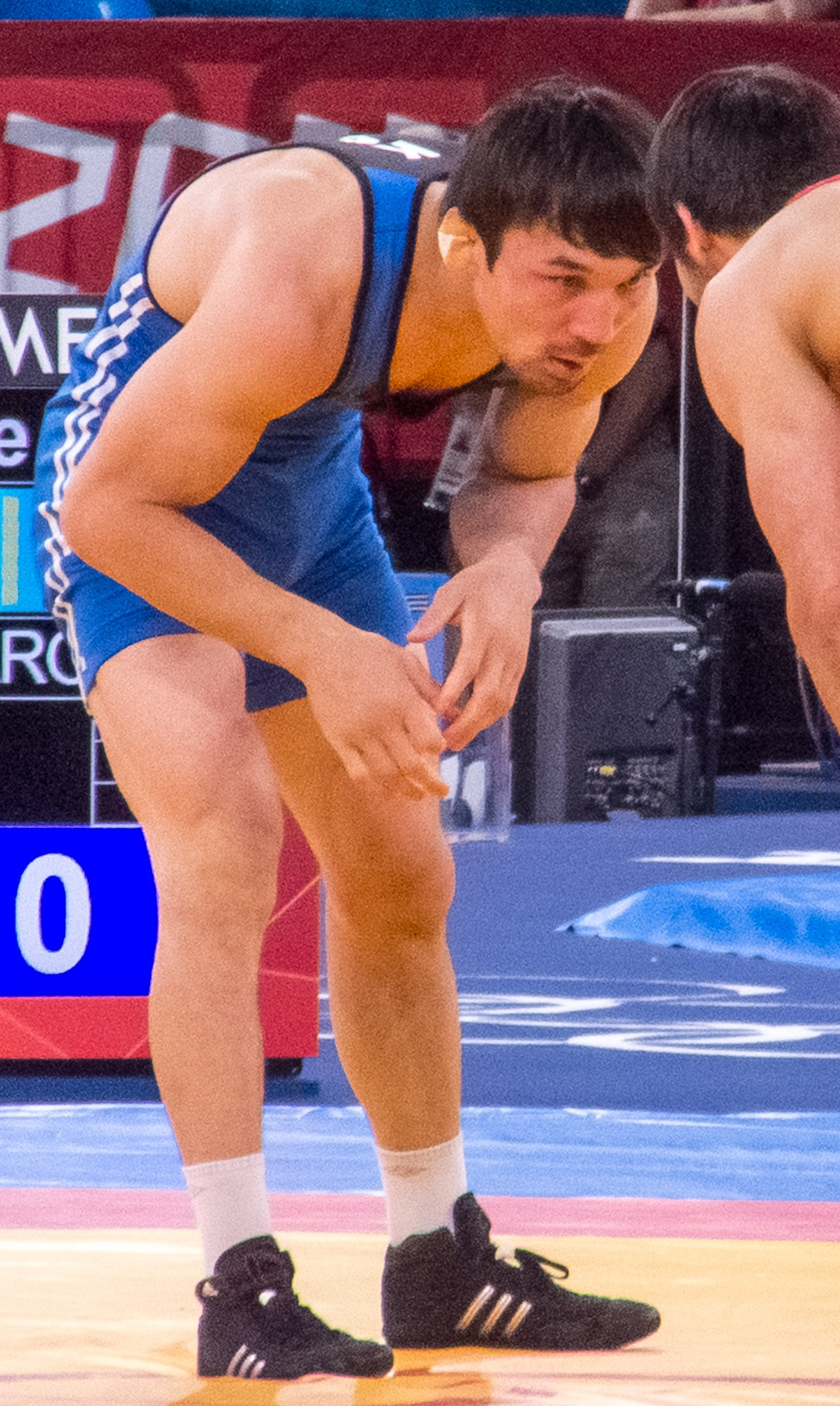 Akzhurek Tanatarov (blue), 2012 Summer Olympics